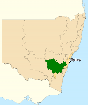 This image incorporates data that is: © Commonwealth of Australia (Australian Electoral Commission) 2009 Division of Hume 2010